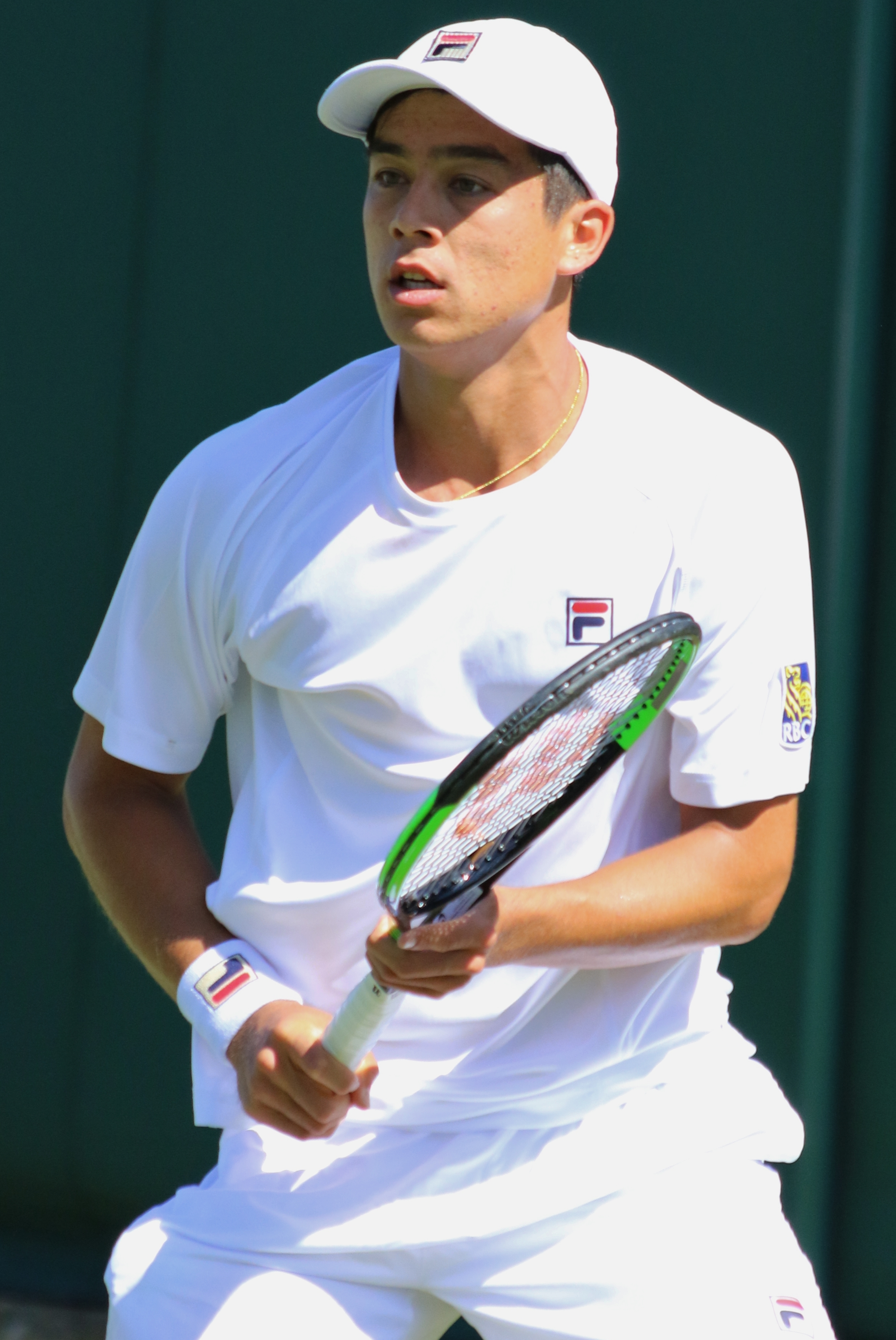 McDonald WM18 (18)